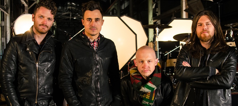 The Fray at the Walmart Soundcheck in 2014